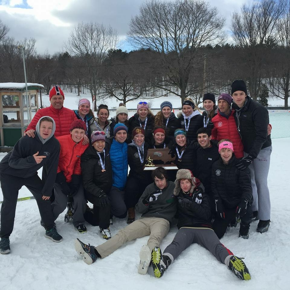 The 2016 Nordic State Team with the girls 2nd place trophie.